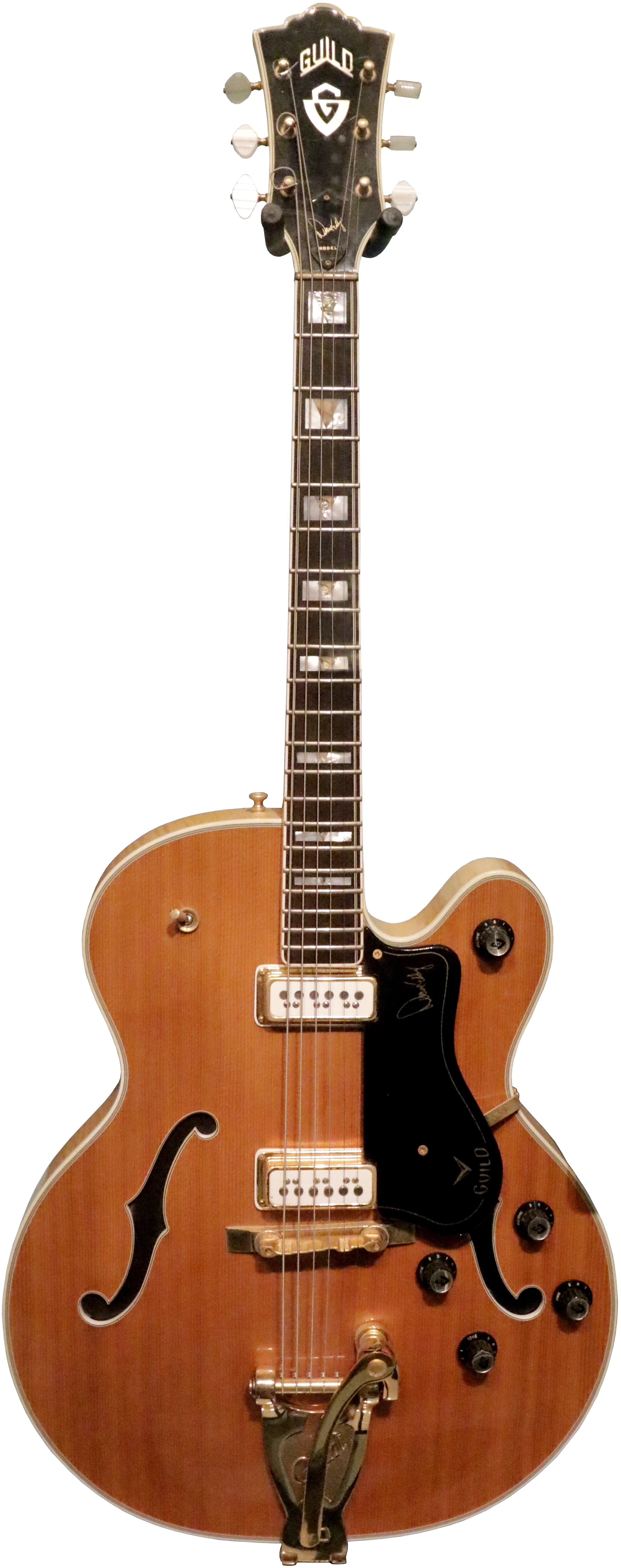 Duane Eddy Guild guitar (Rock and roll Hall of fame, Cleveland, OH).